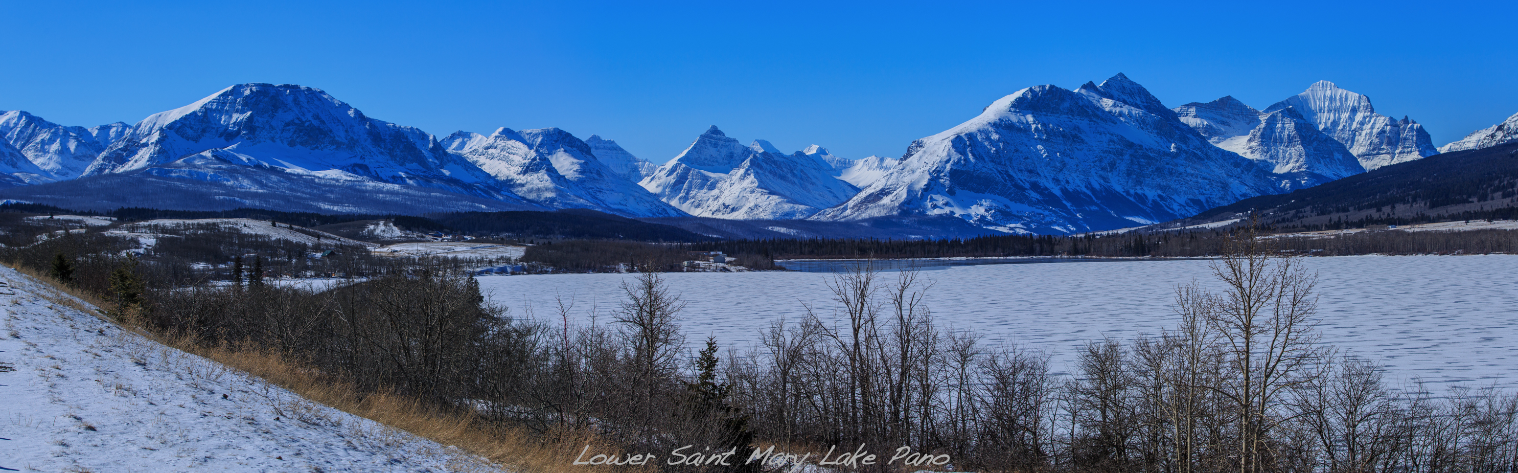 2013-3 US Tour 39-Mon/Col/Ariz/Cal.